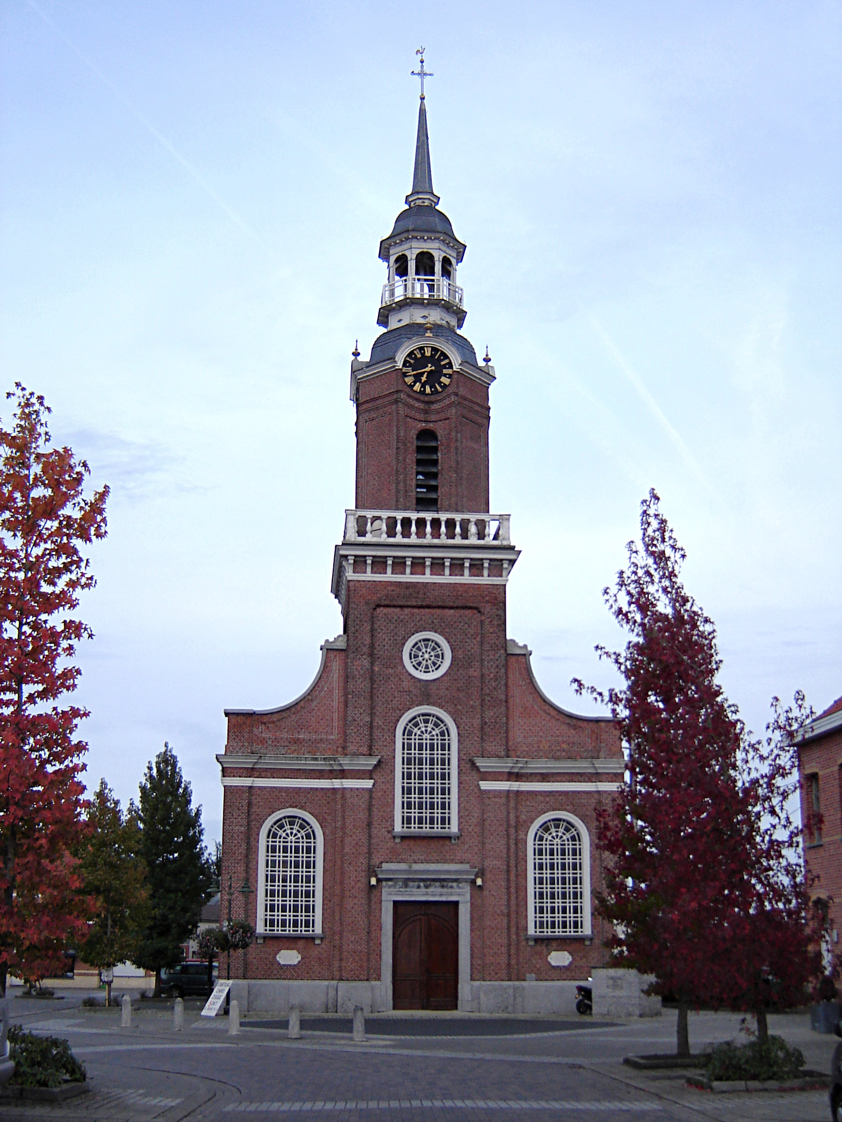 Church of Our Lady, Help of Christians in Zogge. Zogge, Hamme, East Flanders, Belgium